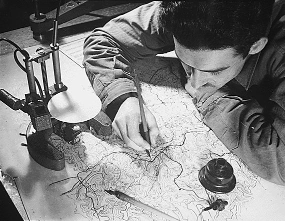 Staff Sergeant Blake Ellis, Sheel Creek, Tennessee, inking in the pencil tracings. Culture, Hydrography, and Contours are shown. England , 01/11/1943